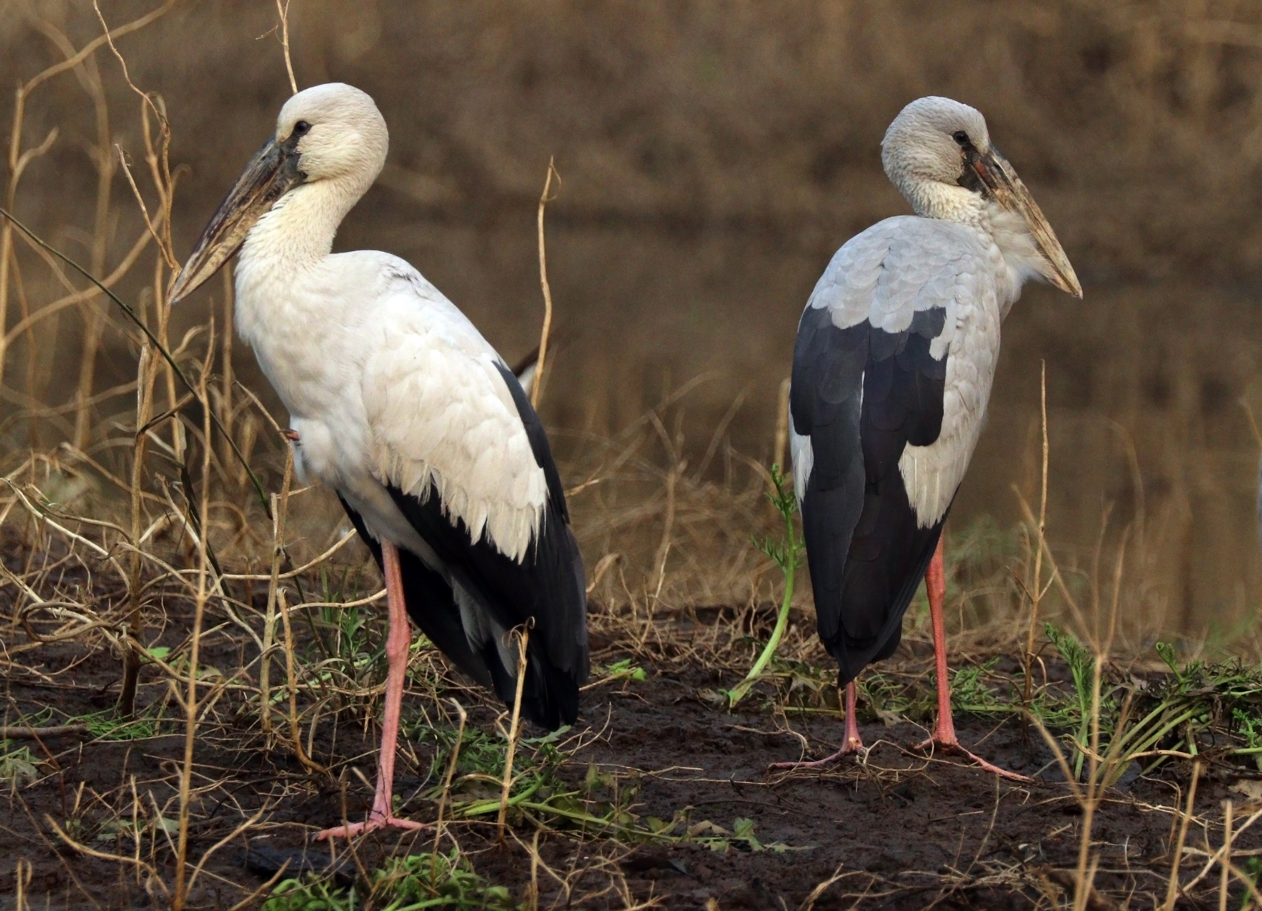 Asian openbill stork (Anastomus oscitans), Chambal River, UP, India. Adult on left; juvenile on right